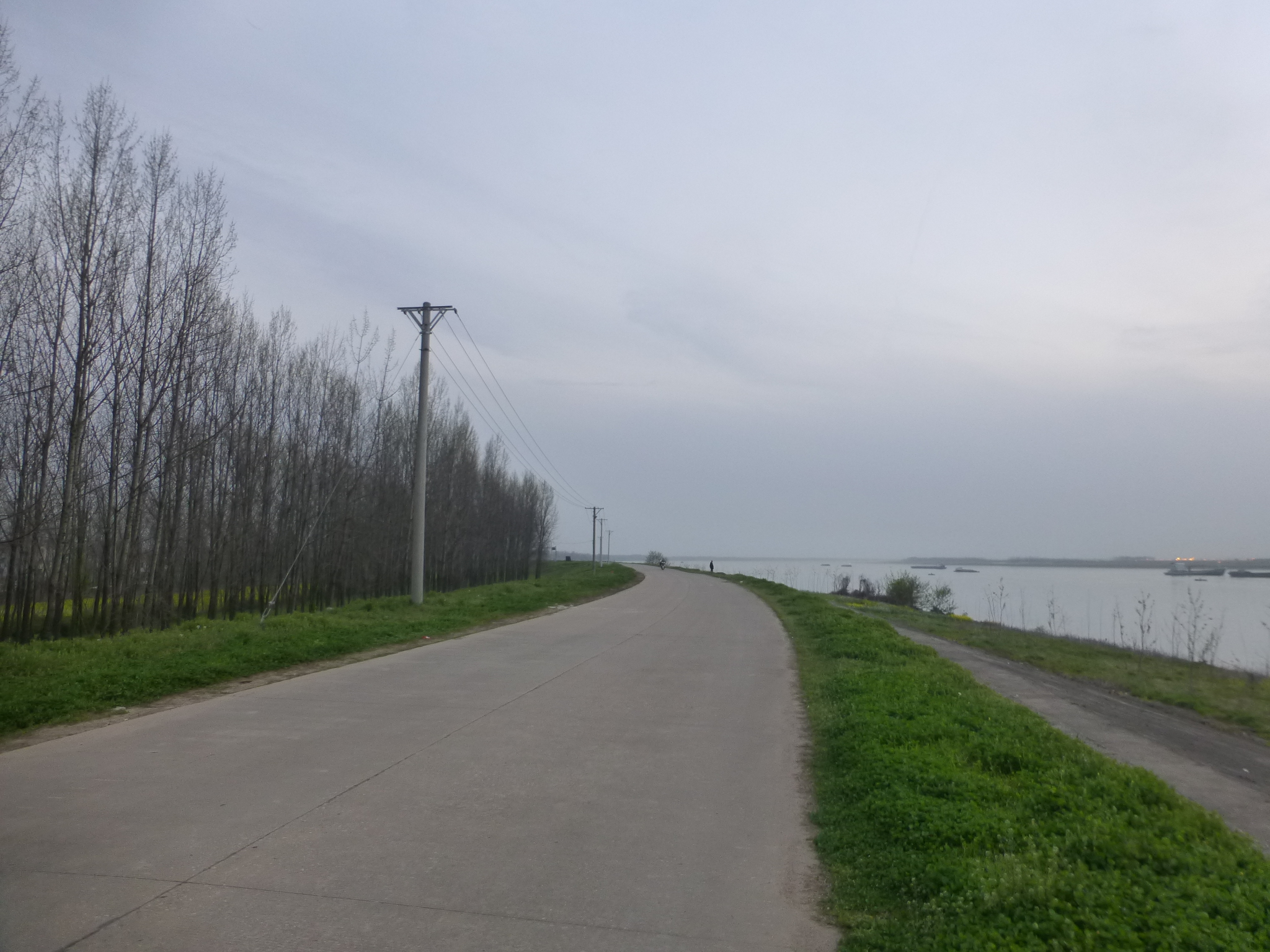 In the evening on the Yangtze levee in JIangxia District, south of Fanhu Village, Jinkou Subdistrict